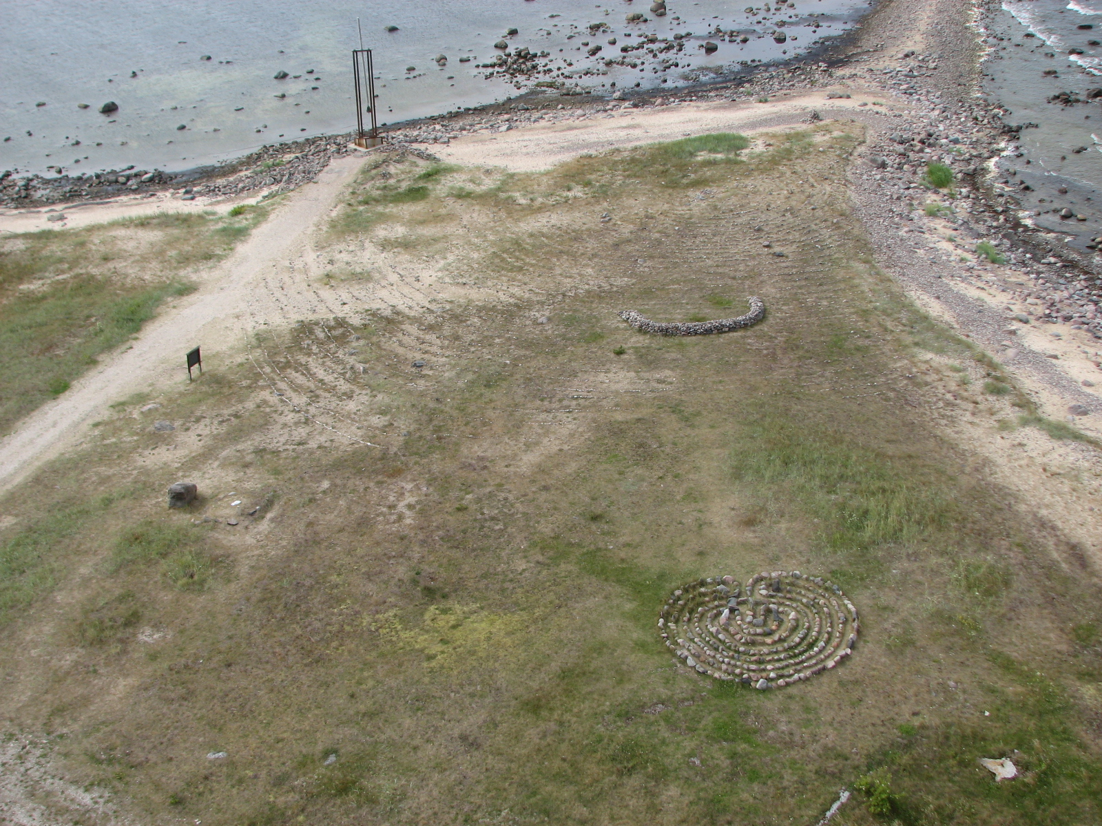 Tahkuna stone labyrinth, Hiiumaa, Estonia